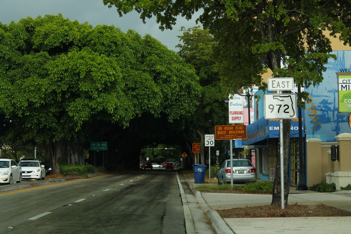 FL972eSignRoad-CoralWay-CoralGables